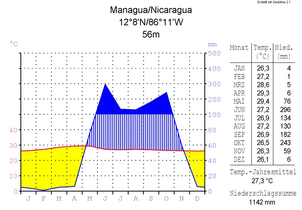 climate chart in the format by Walter and Lieth, metric, °Celsisus and millimeters, made with Geoklima 2.1